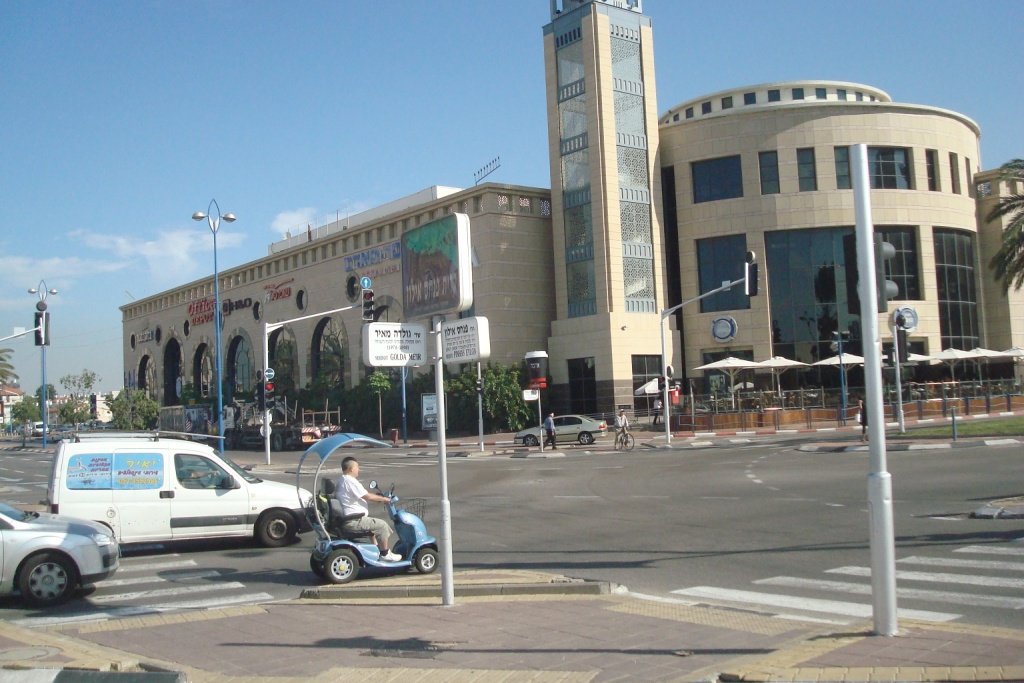 Holon, Architecture of Israel